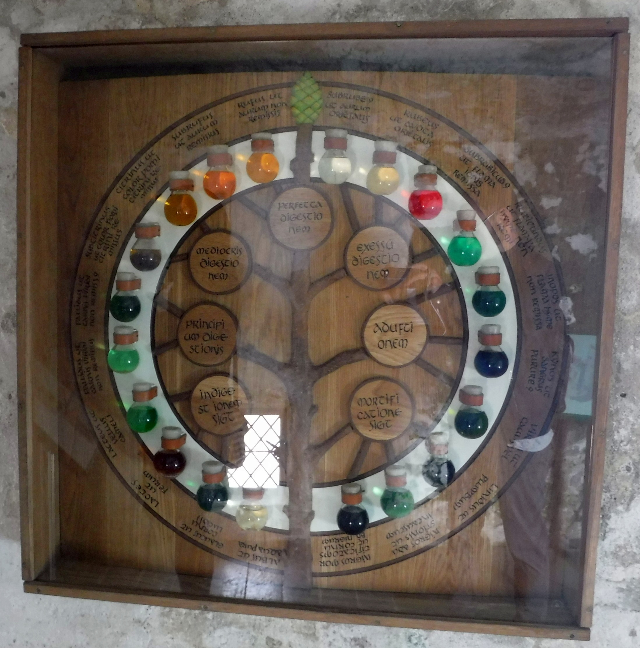 Medieval Urine Wheel (model made by Gordon Young) at Mont Orgueil Castle